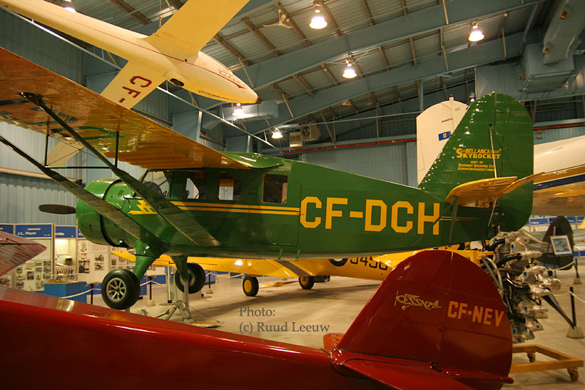 M. Ruud Leeuw has placed this photograph into the public domain through a personal letter (email) to me (Bzuk). All requirements that he has made are that the photograph is not altered and includes a reference to the originator/photographer. The original photograph is found on